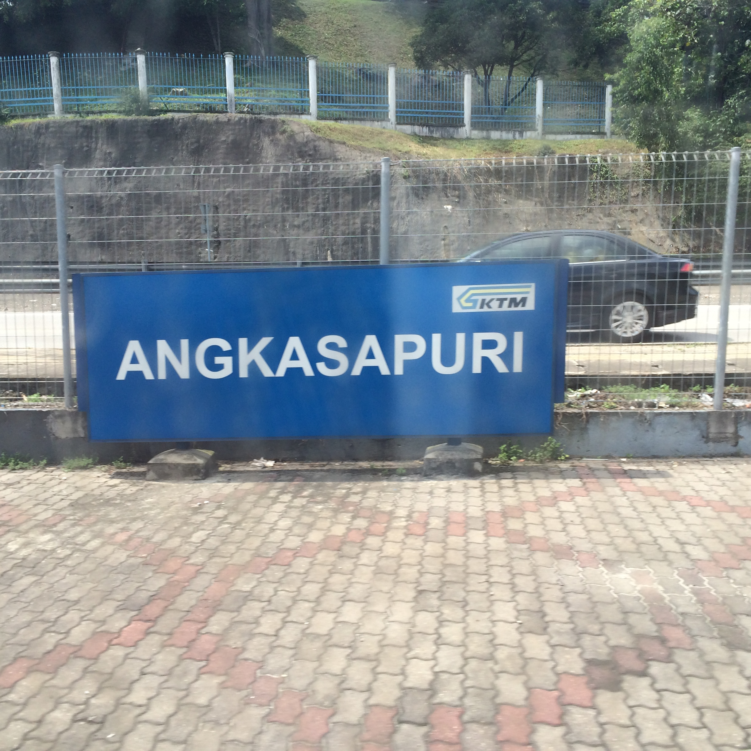 station - Angkasapuri